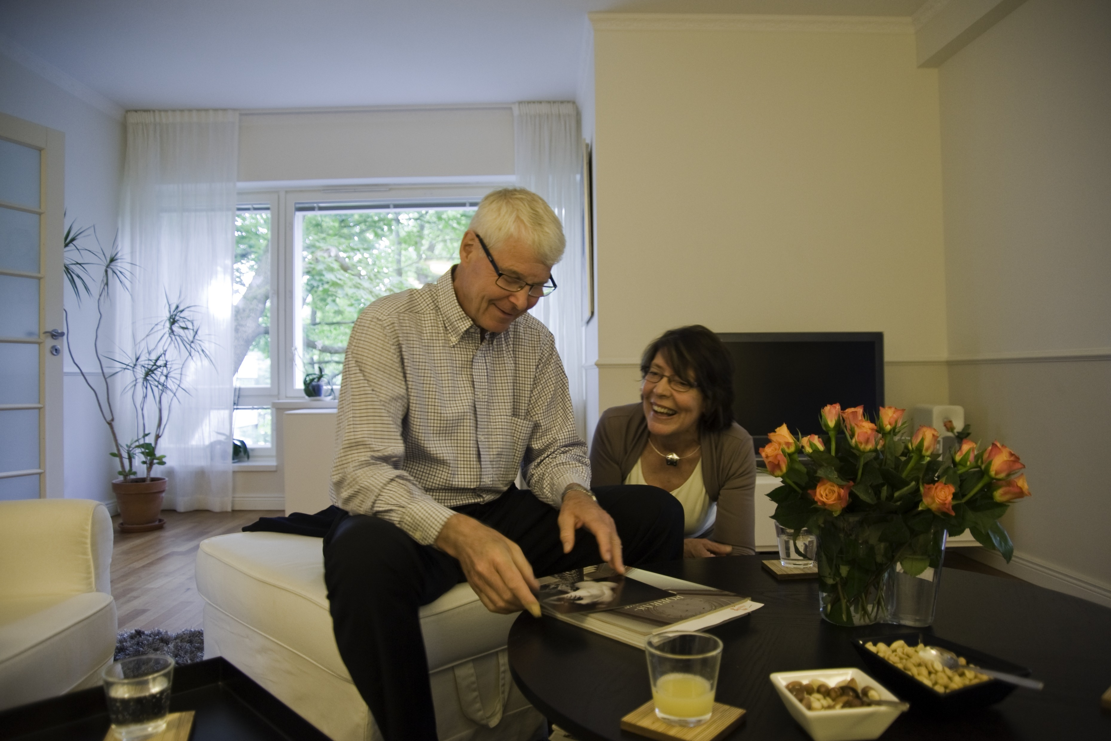 Photograph of the Finnish politician Henrik Lax (1946–) and his wife Anna-Kristina Lax at their home, Tammitie, Helsinki.